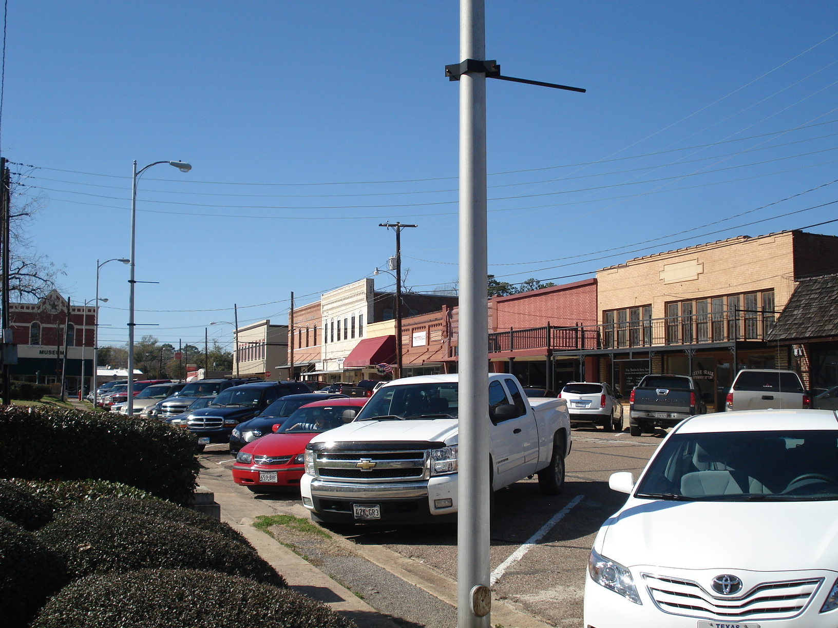 Downtown Jasper corner of Lamar & Zavalla